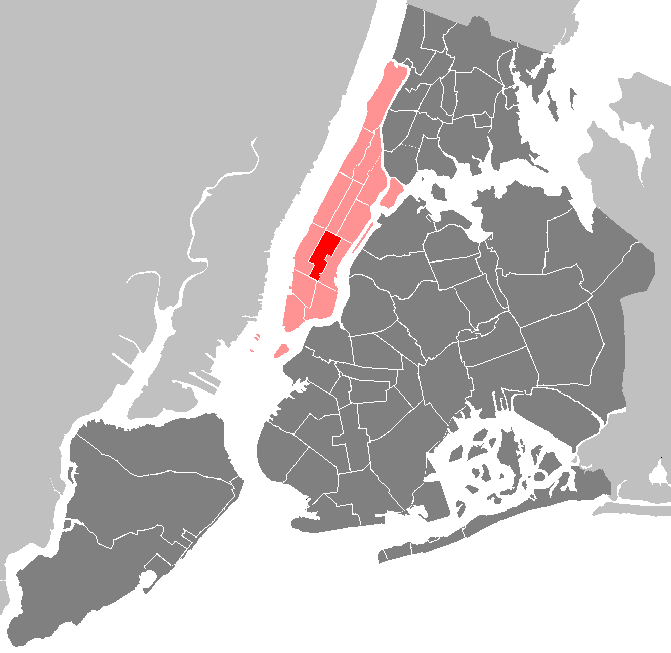 Category:Maps of New York City: New York City - Manhattan - Community Board 5.PNG